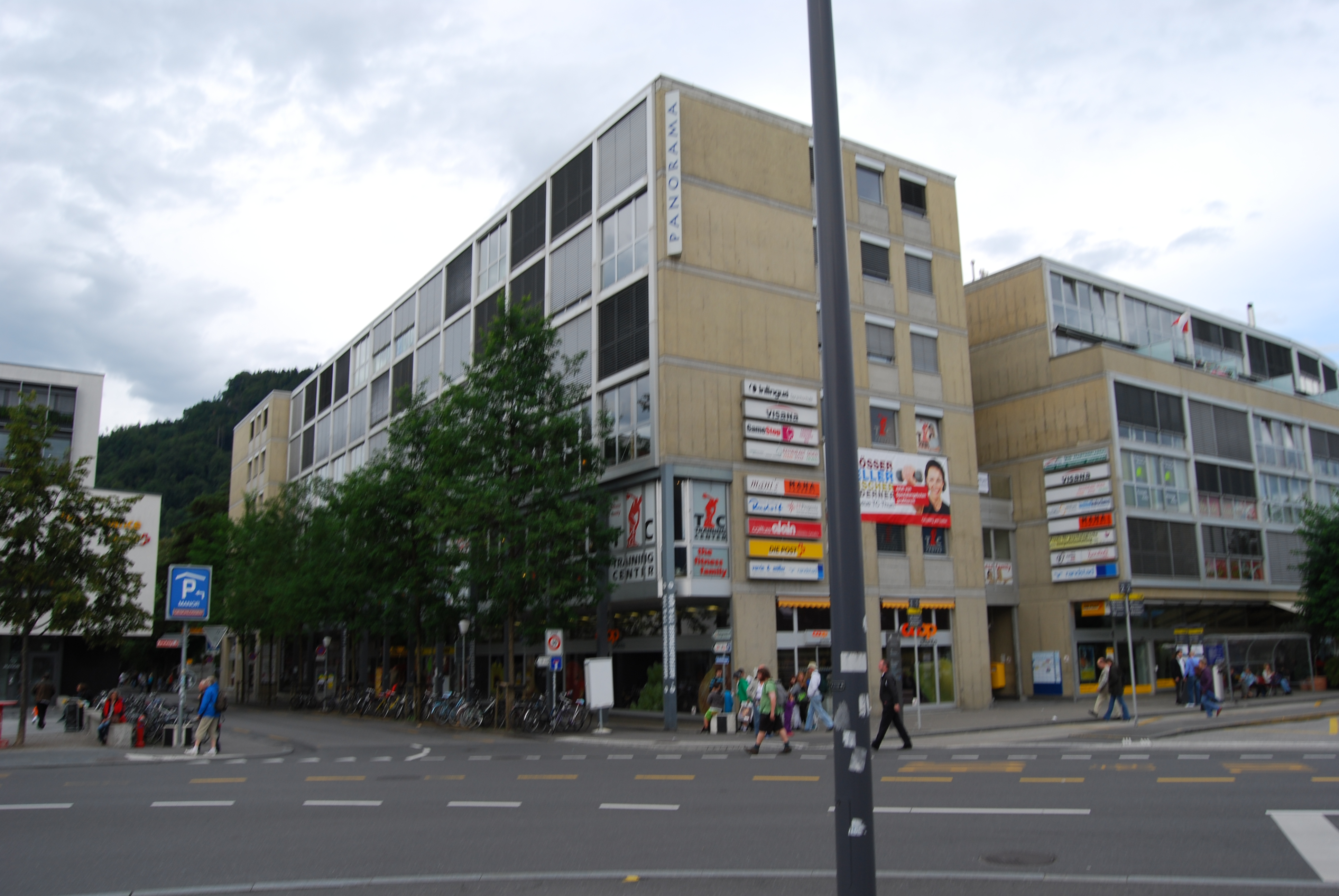 Thun, canton of Bern, SwitzerlandEsperanto: Thun, Kantono Berno, Svislando